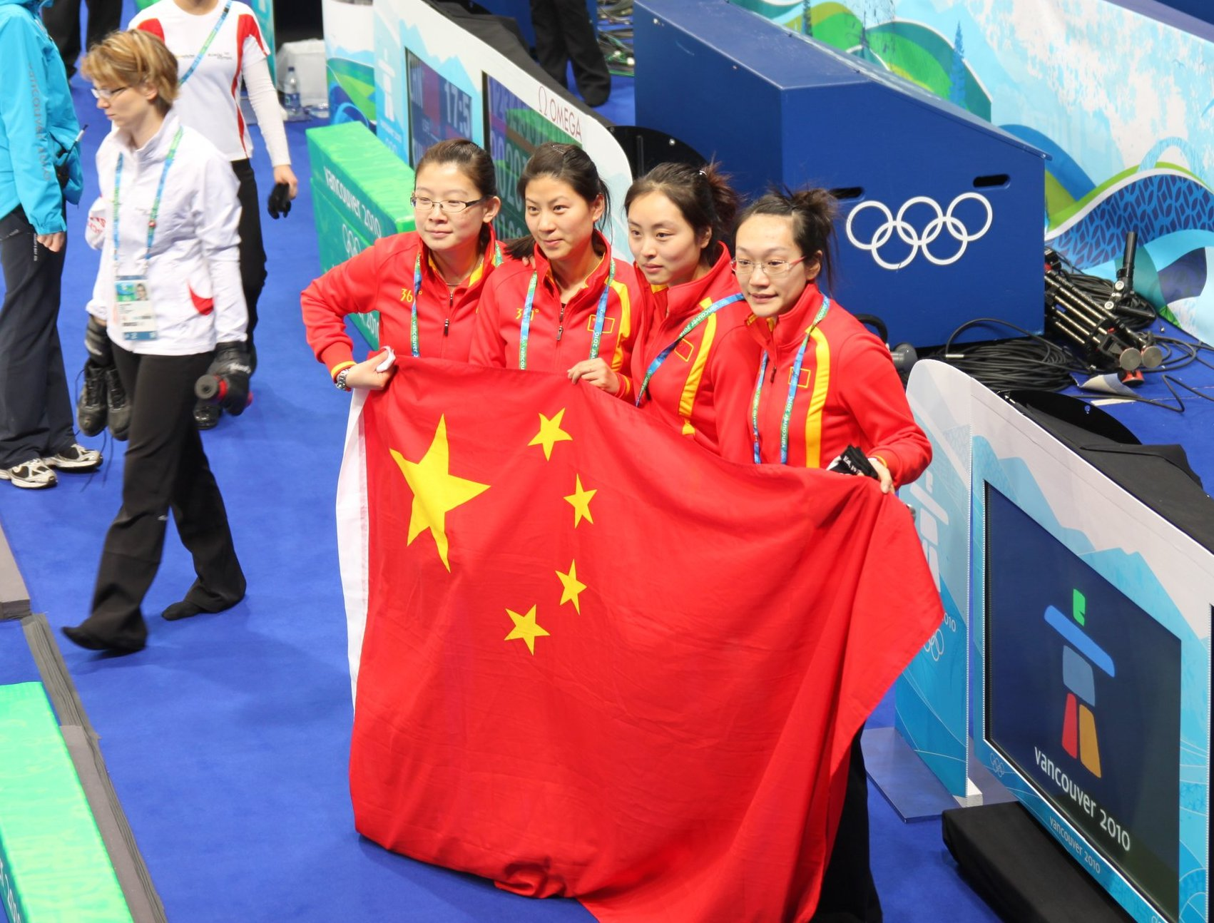 Vancouver 2010 Chinese women's curling team, immediately after winning the bronze medal. From left to right: Wang Bingyu, Liu Yin, Yue Qingshuang, Zhou Yan.